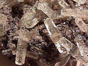 Calcite specimen from Brushy Creek Mine, Missouri, USA. Clear colourless doubly terminated scalenohedral calcite crystals, measuring up to 2.3 cm (0.9") in length, on matrix.